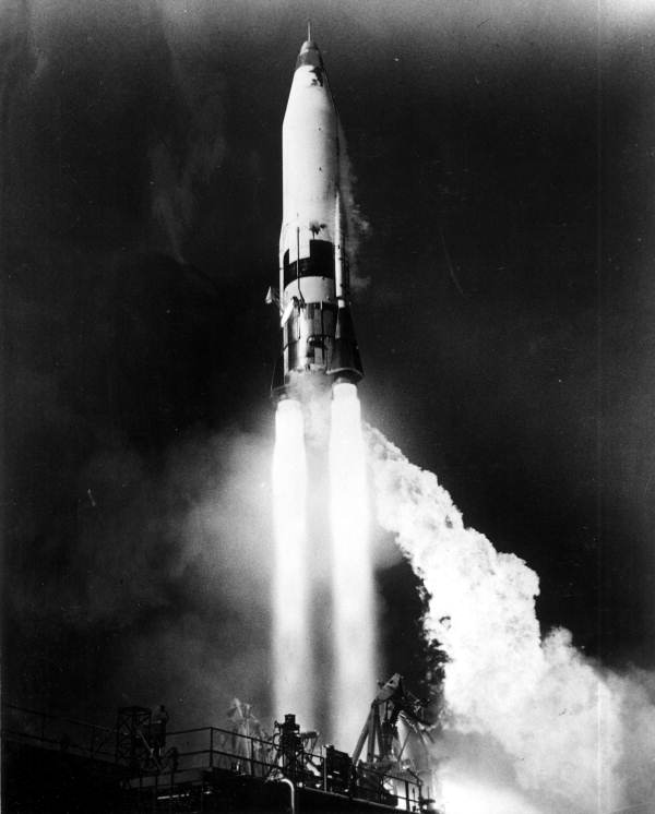 Local call number: C028012 Title: Atlas Missile launch: Cape Canaveral, Florida Date: 1958 Physical descrip: 1 photoprint - b&w - 10 x 8 in. Series Title: Department of Commerce Collection Repository: State Library and Archives of Florida, 500 S. Bronough St., Tallahassee, FL 32399-0250 USA. Contact: 850.245.6700. Persistent URL